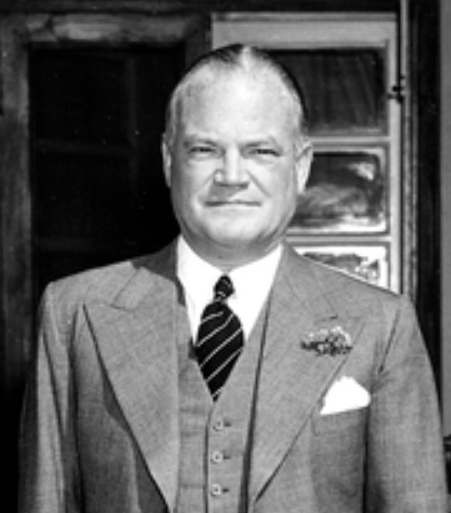 George R. Merrell, a diplomat for the United States of America